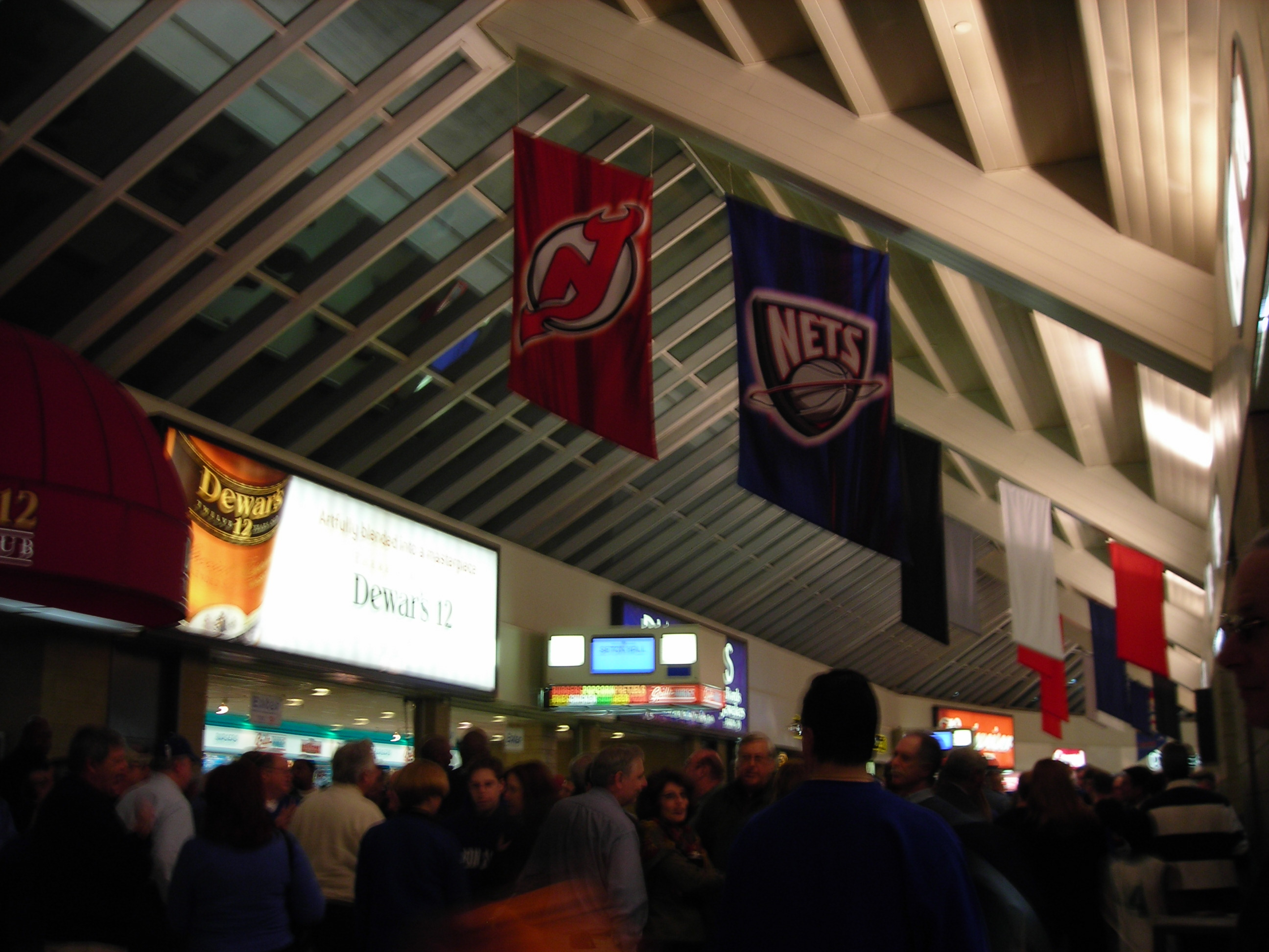 Photo taken by myself, January 19, 2007.